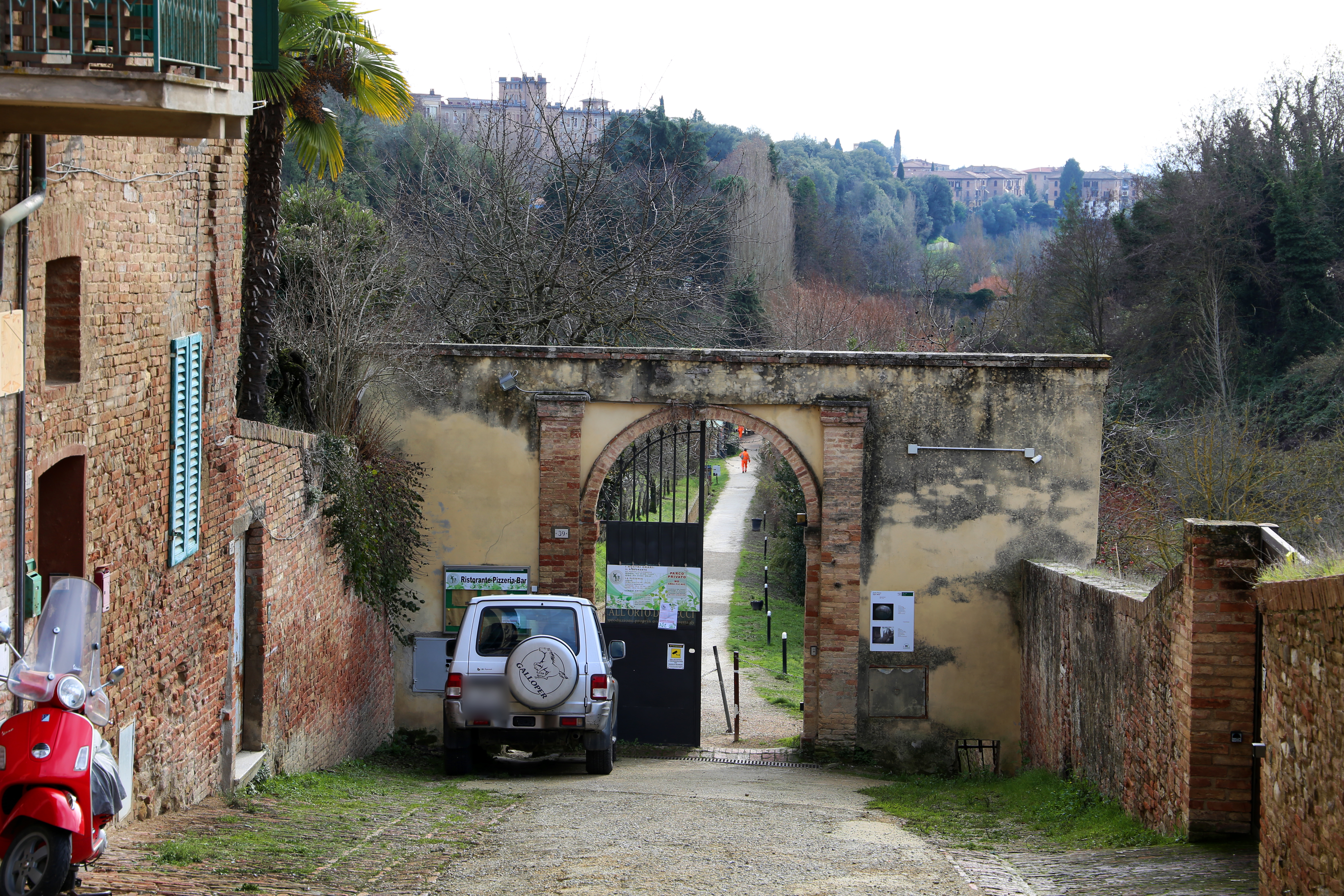 Valdimontone